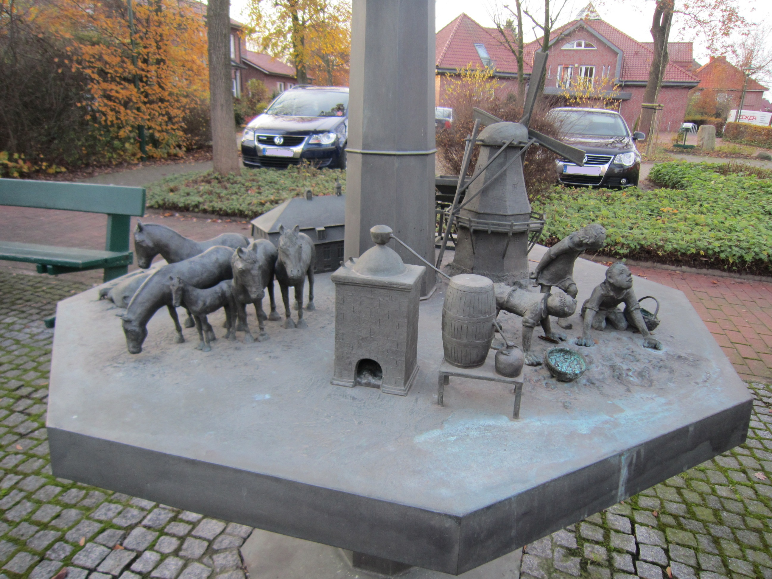 Bronze plastic by Albert Bocklage (2009), showing the history of Bakum, Lower Saxony